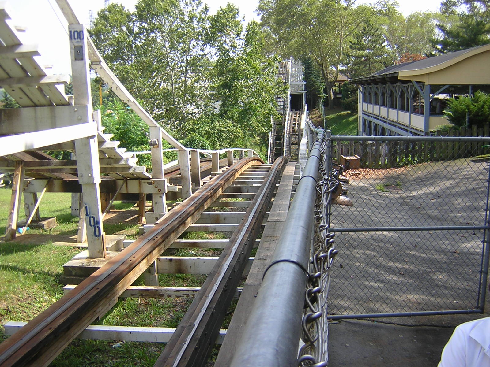 A scene from Kennywood, an amusement park located in West Mifflin, Pennsylvania on the Monongahela River. This is a view of the historic Jack Rabbit ride. This Roller coaster ride dates to 1921. This is the track leading to the shed.